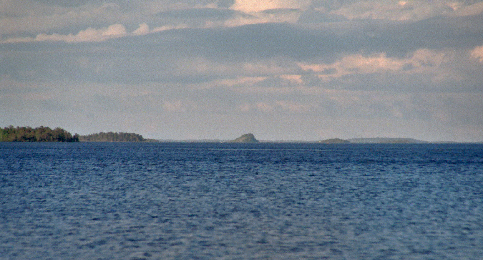 Inari Lake in northern Finland with island Ukonkivi